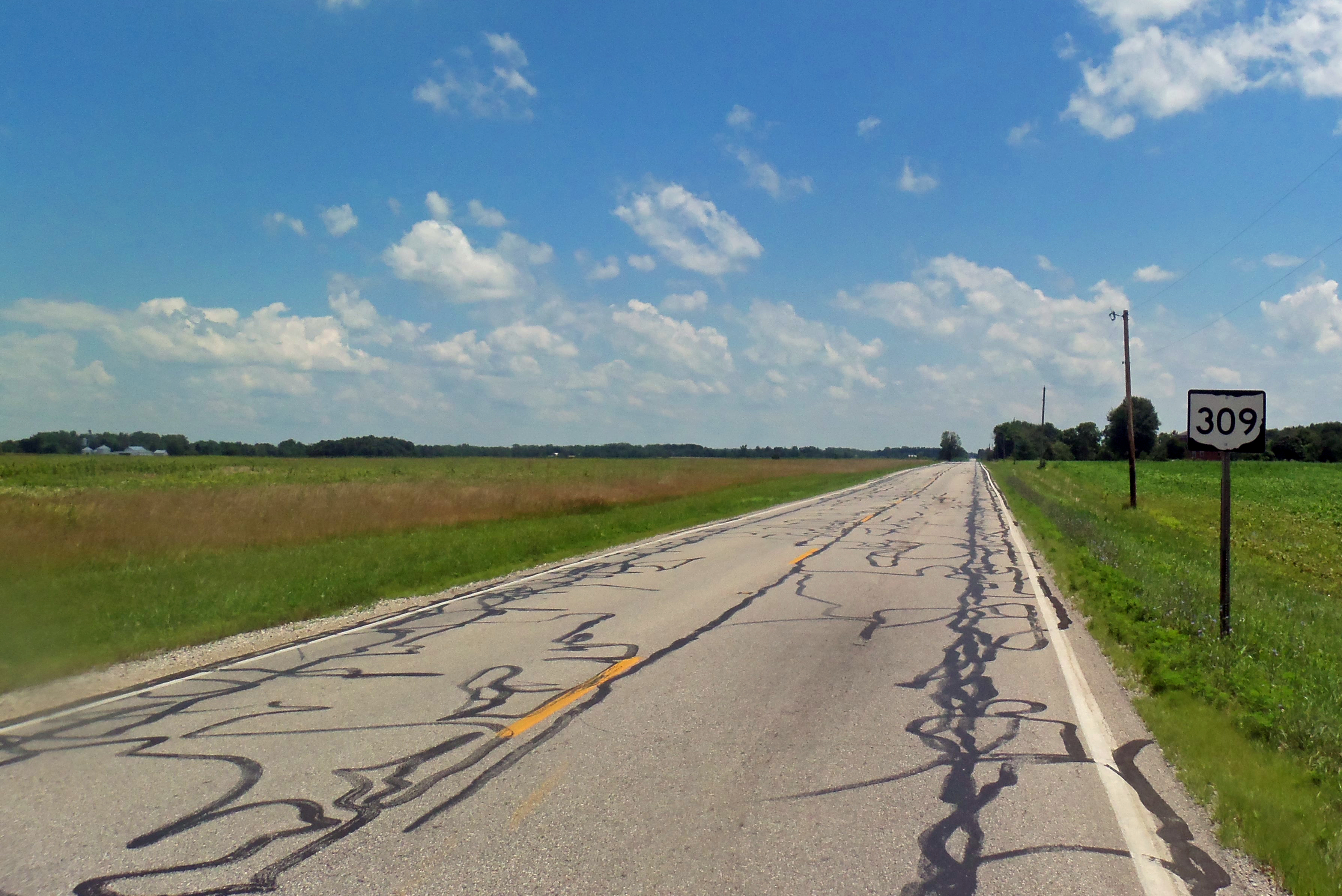 View looking east along OH 309 from the Marion-Hardin county line between Dudley and Montgomery townships.